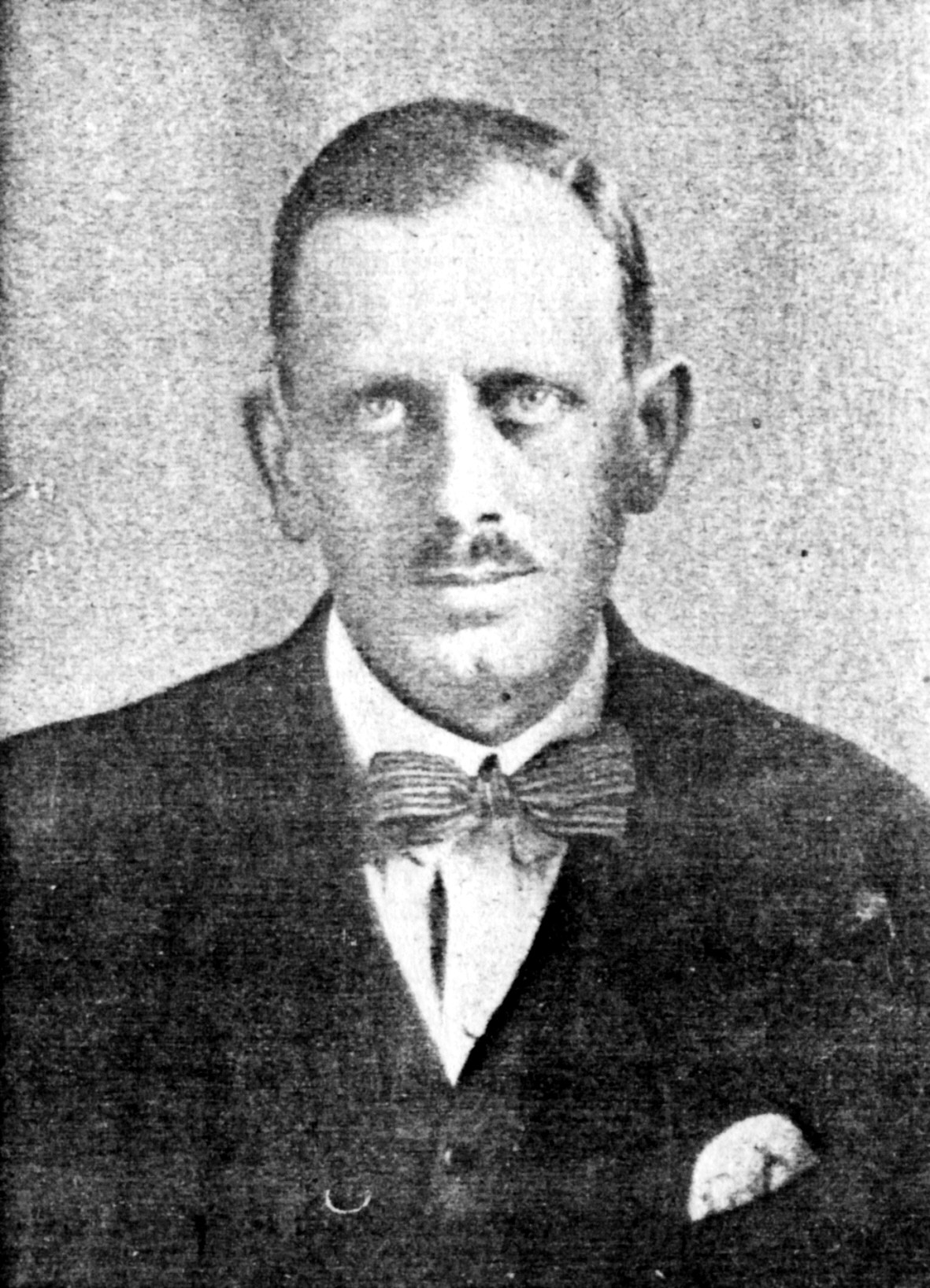 Friedrich Wilhelm Virck (1882-1926), German architect and head officer of the municipal building authority of Lübeck